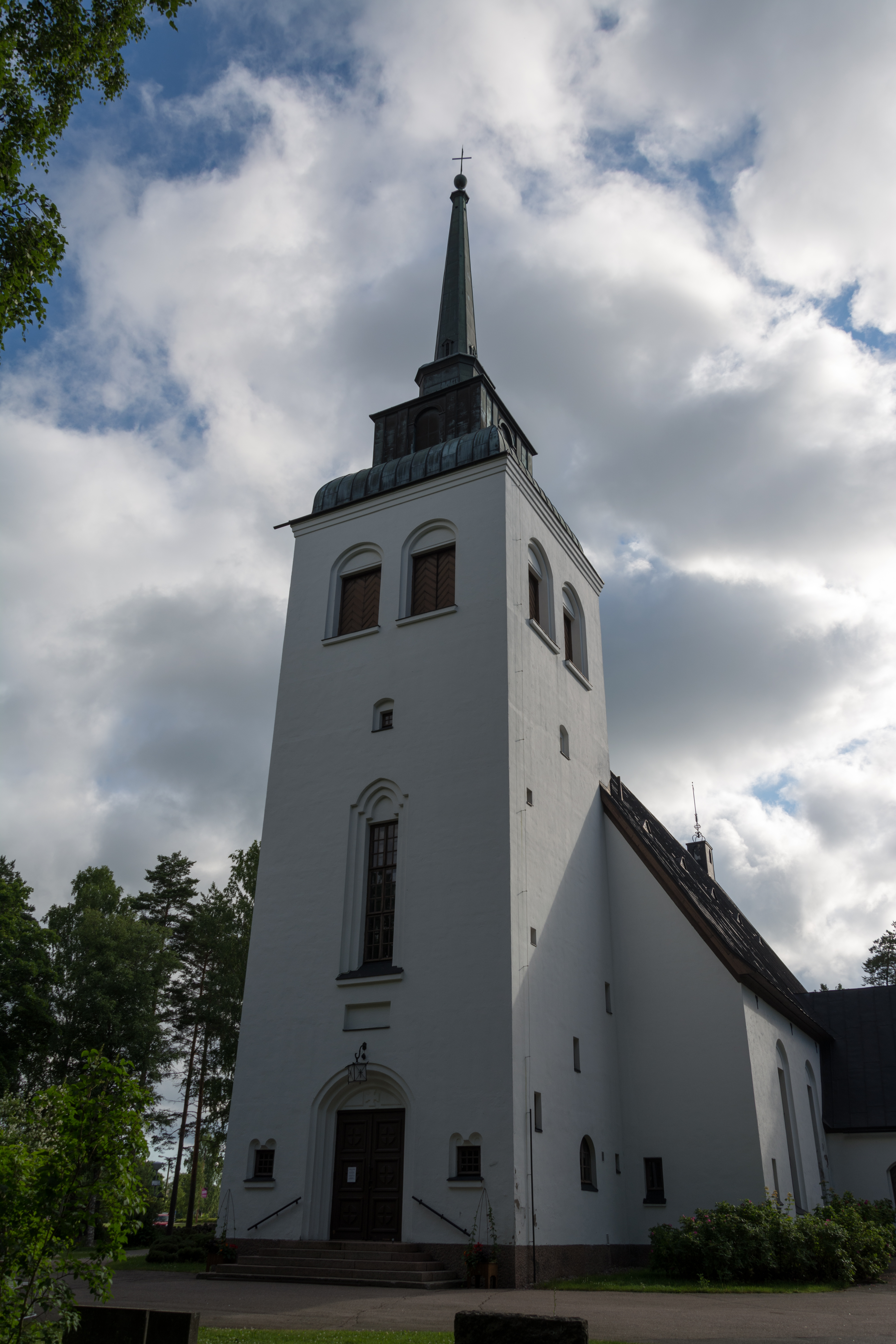 Valkeala Church in Kouvola, Finland.